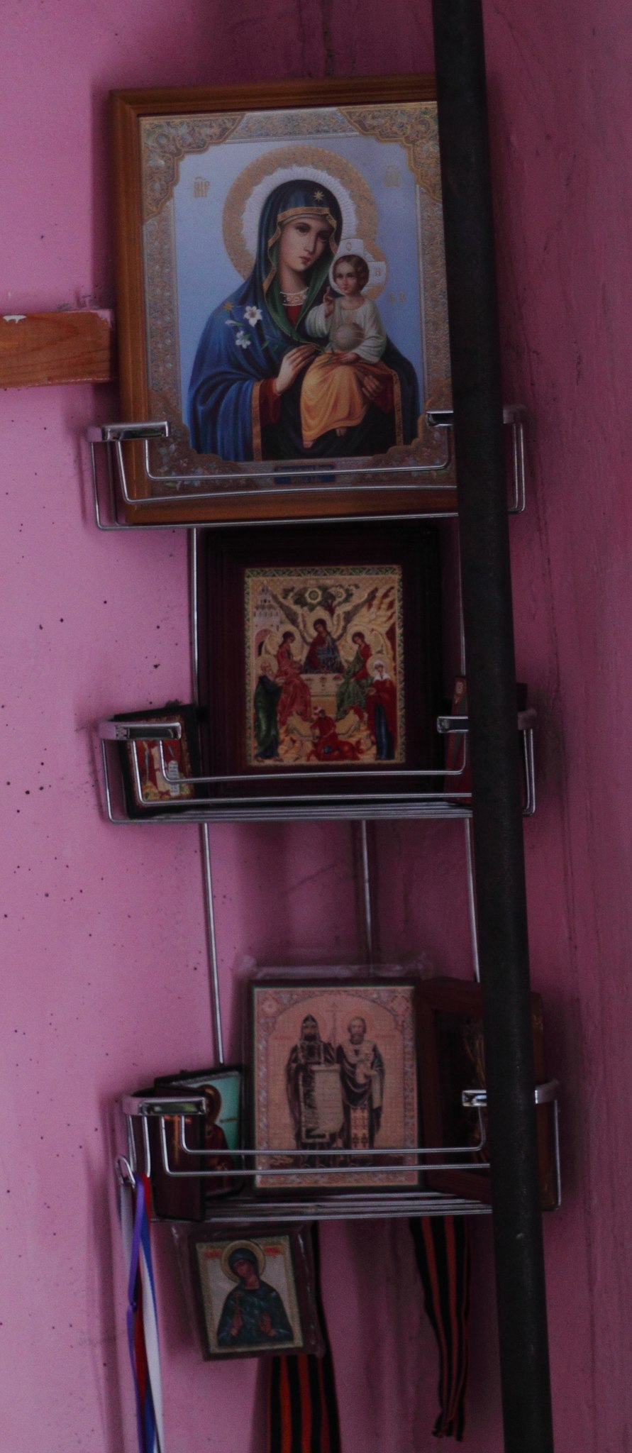 Icon corner in Russian apartment (St.-Petersburg, Kupchino)